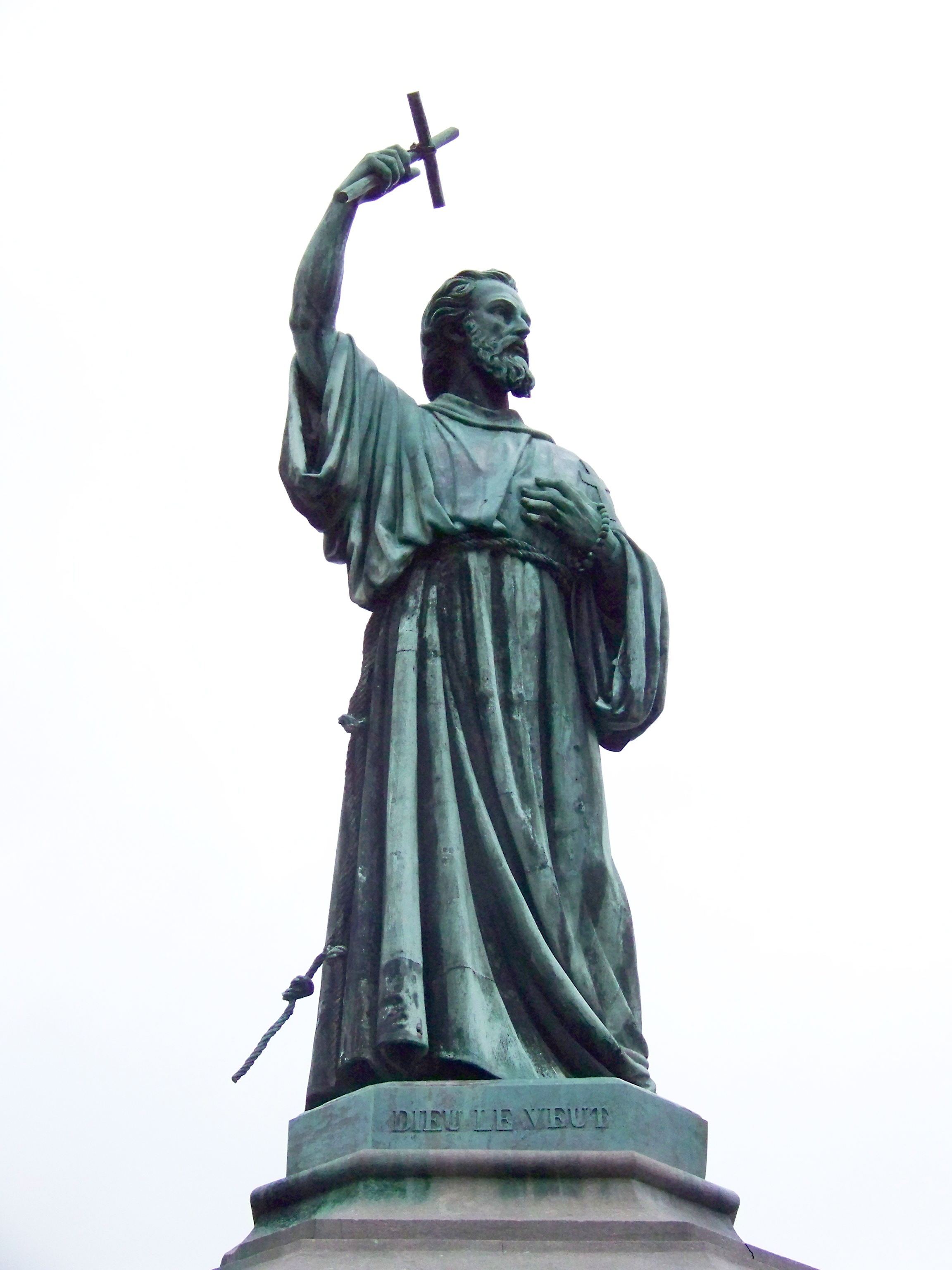 Statue of Saint Peter the Hermit (Saint Peter of Amiens) behind the cathedral of Amiens, France, by Gédéon de Forceville (1854).